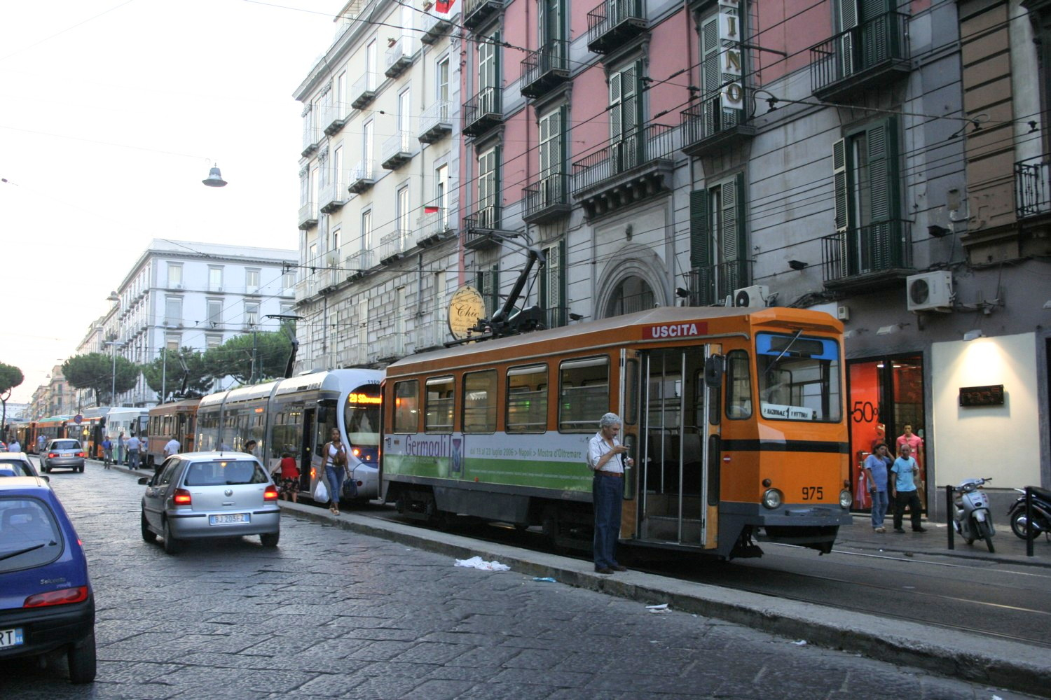 Naples: Trams, Trolleybuses and buses